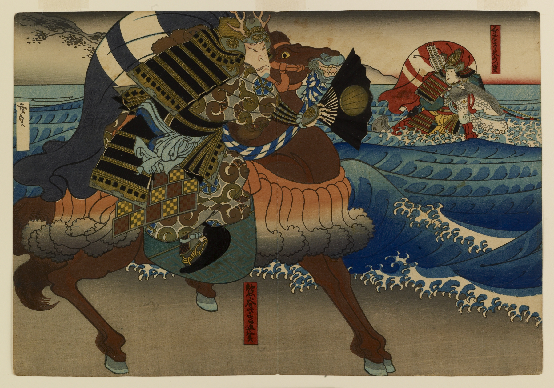 The victorious Genji general Kumagai Naozane spies a defeated Heike warrior Taira no Atsumori heading on horseback into the sea, where he is hoping to make it to his clan's fleet, anchored offshore. "It is cowardly to turn your back on your enemy," Naozane cries, beckoning with his fan, "come back!" Atsumori returns to fight, and Naozane beheads him. But it is a tragic episode, for Atsumori is but a youth, and at dawn, before the battle began, his flute playing had been heard by all.